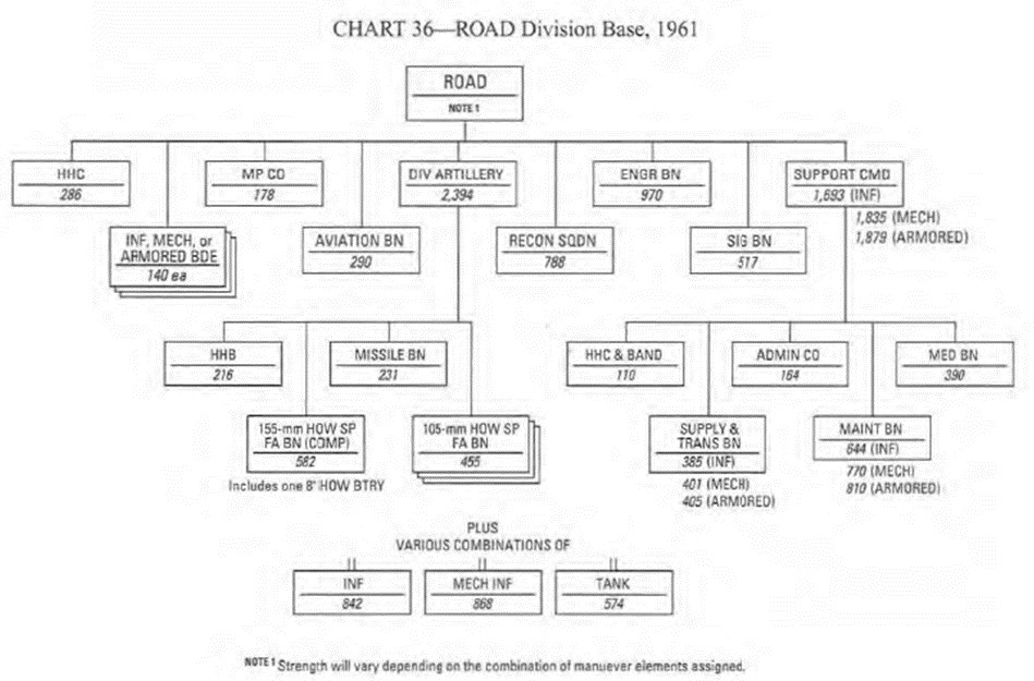 Organization chart depicting the Reorganization Objective Army Division (ROAD) that replaced the Pentomic divisional structure in 1961